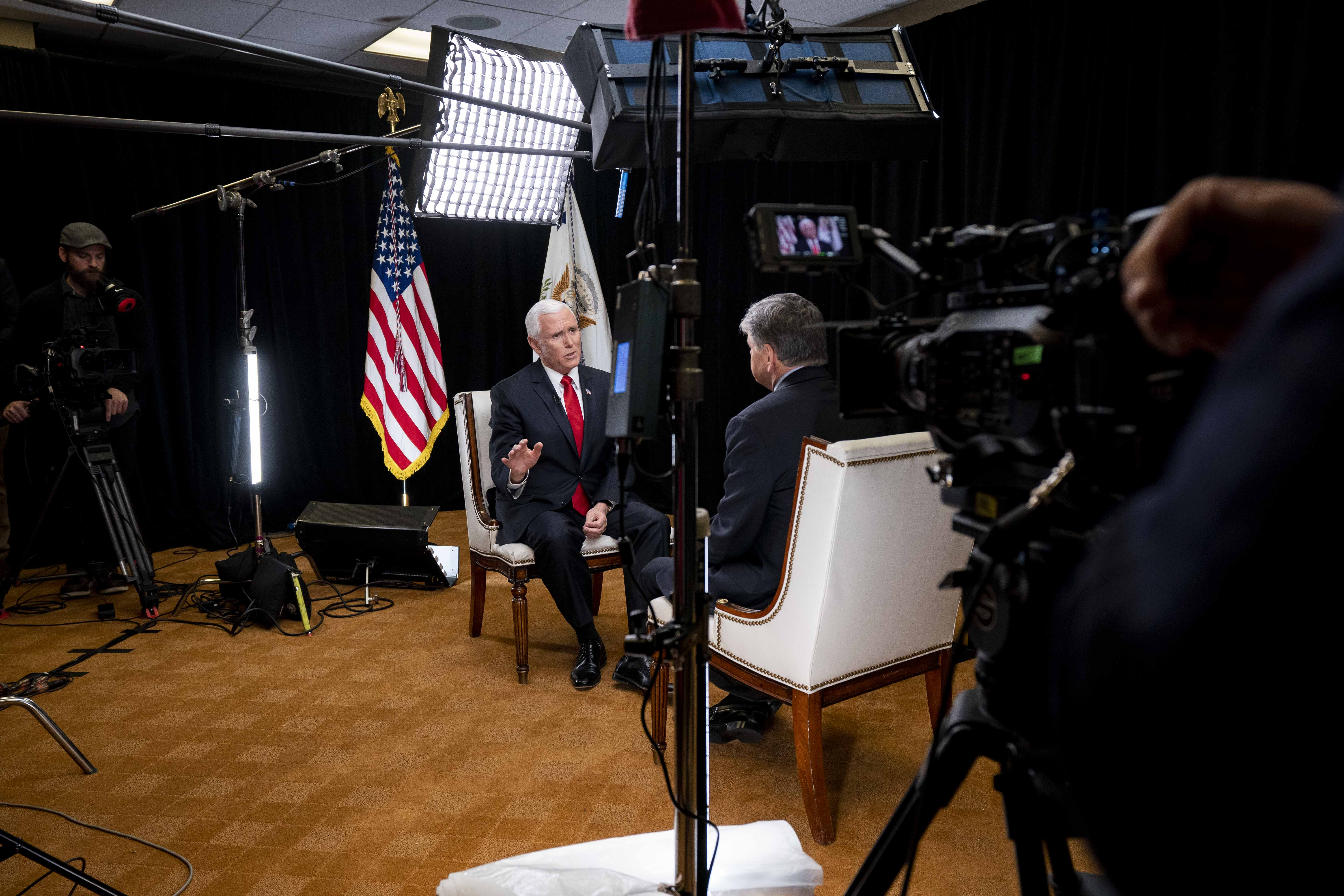 Vice President Mike Pence participates in an interview with Sean Hannity of Fox News Thursday, Feb. 27, 2020, at the Gaylord National Resort and Convention Center in National Harbor, Md. (Official White House Photo by D. Myles Cullen)